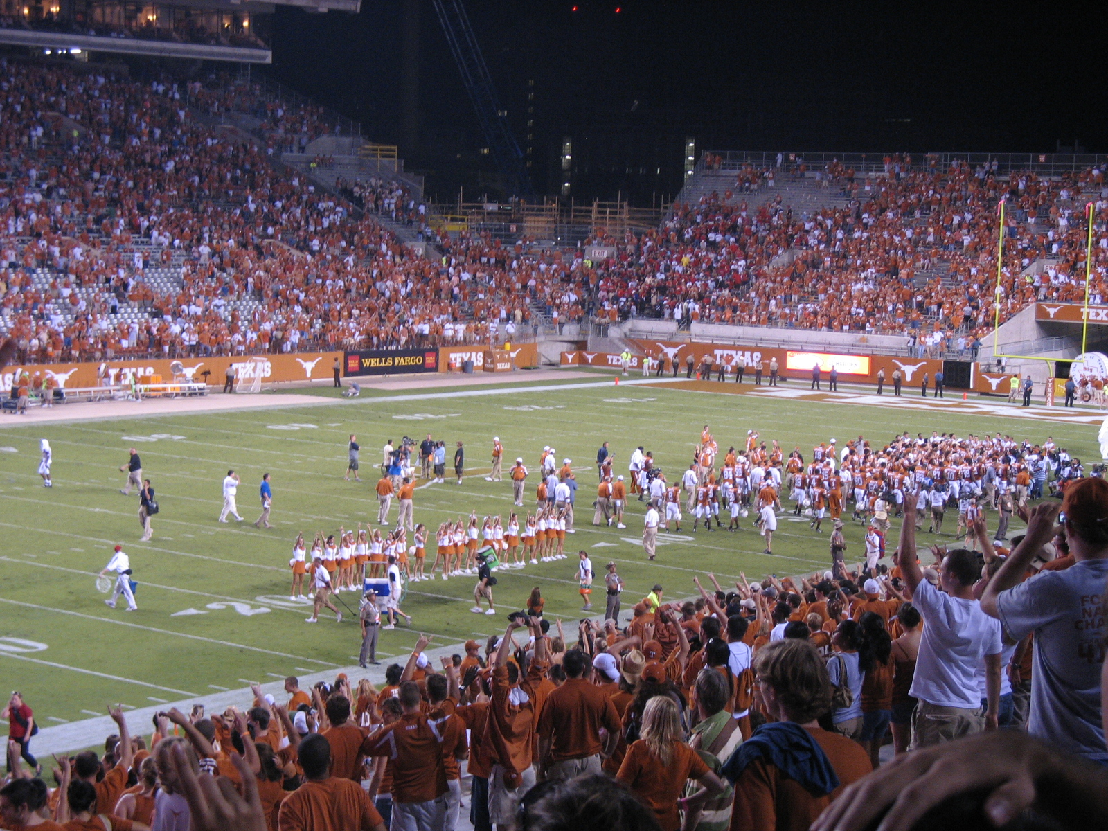 Eyes of Texas after a Texas Football win against Arkansas State.